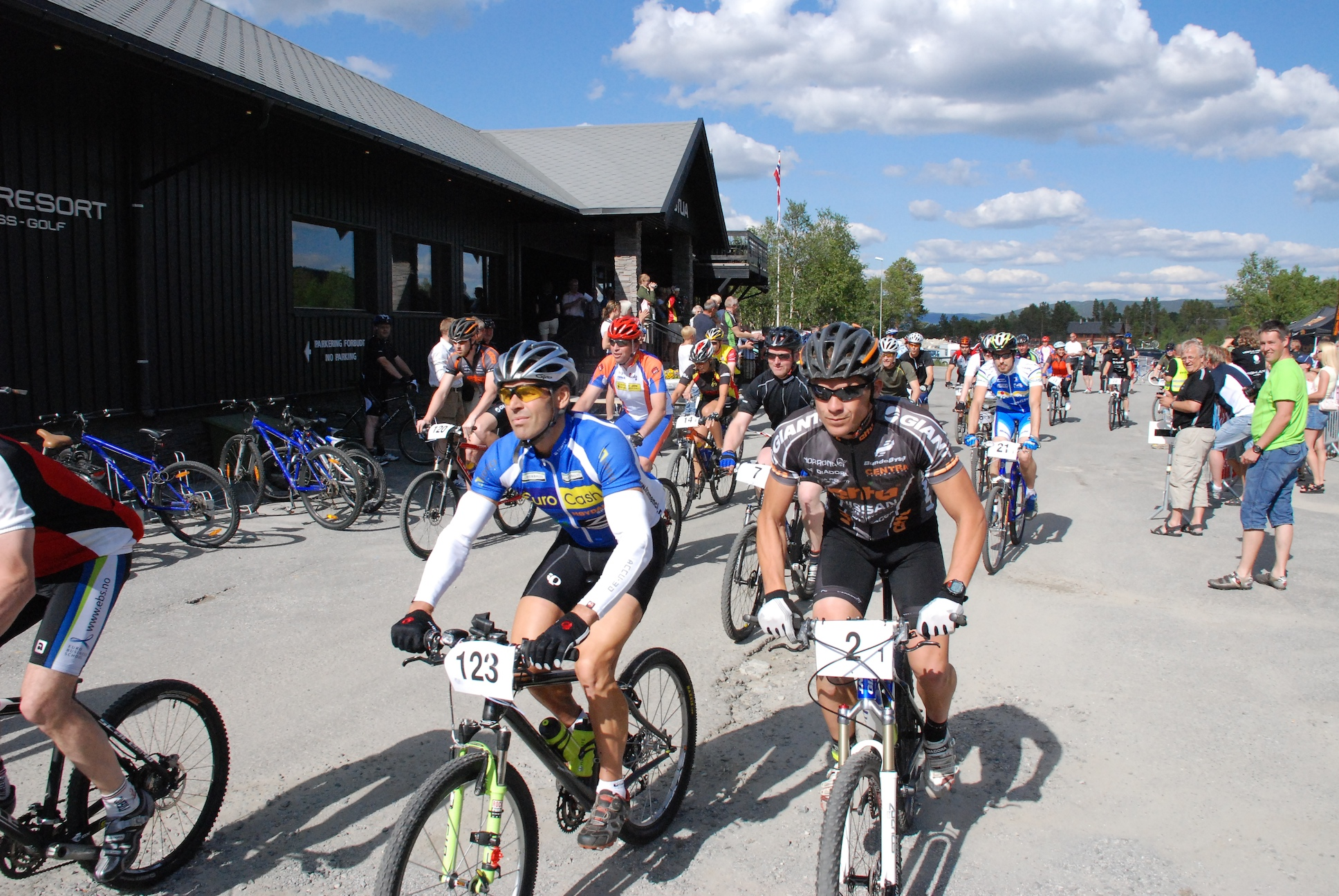 Start of the 2008 Geilo24 bicycle race